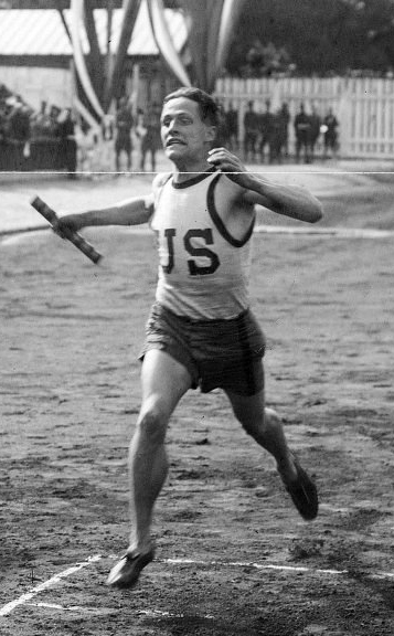 Photograph of Lawrence Shields